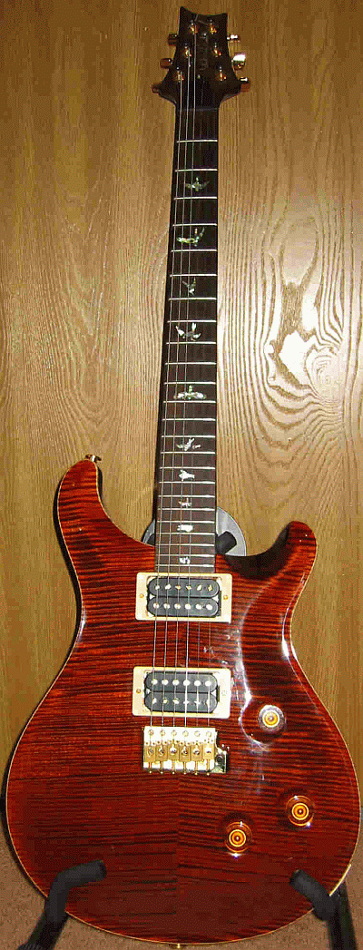 Paul Reed Smith Guitar